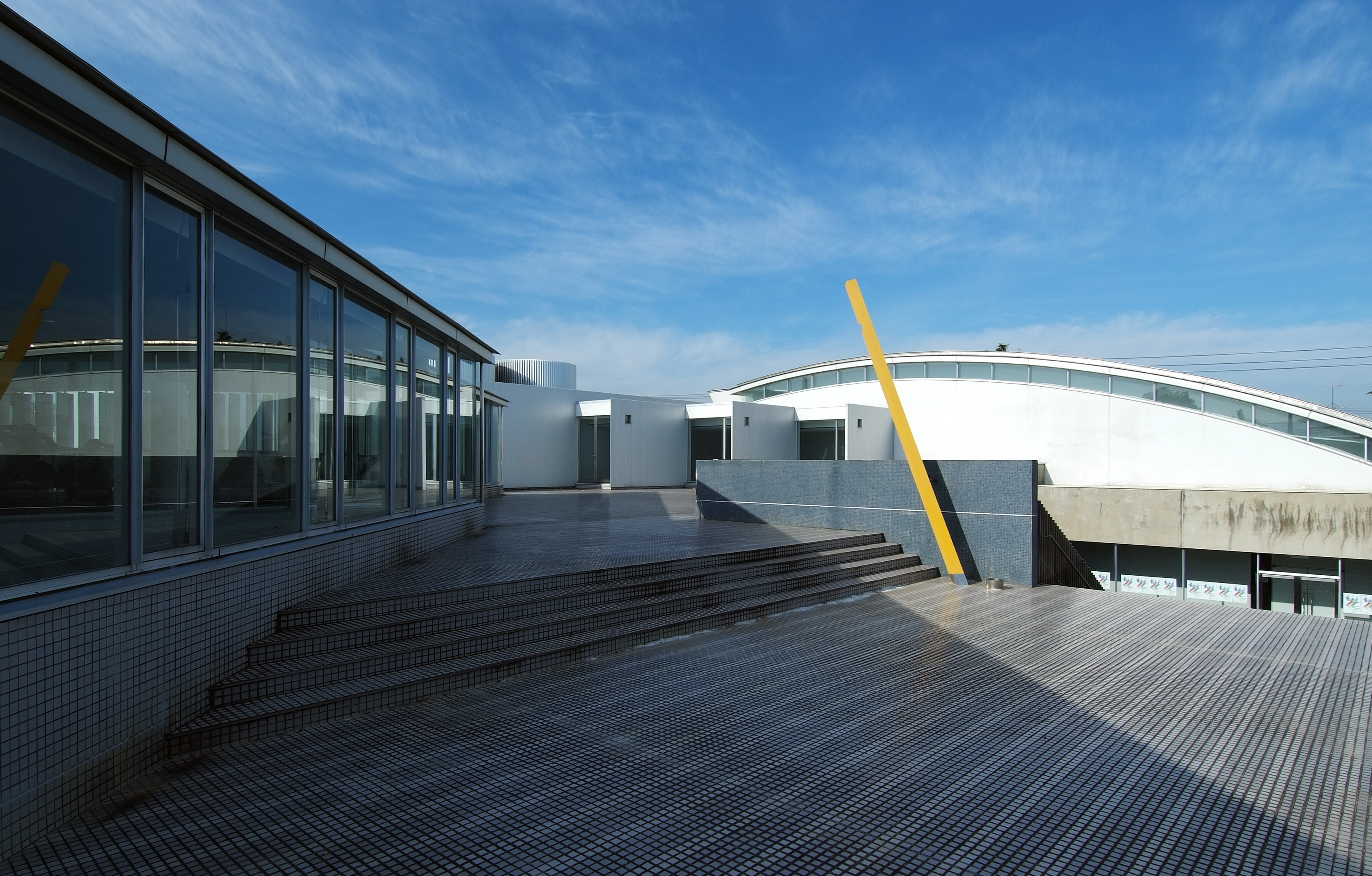 Nakatsu Obata Commemoration Library, at Nakatsu Ōita Japan, design by Fumihiko Maki in 1993.